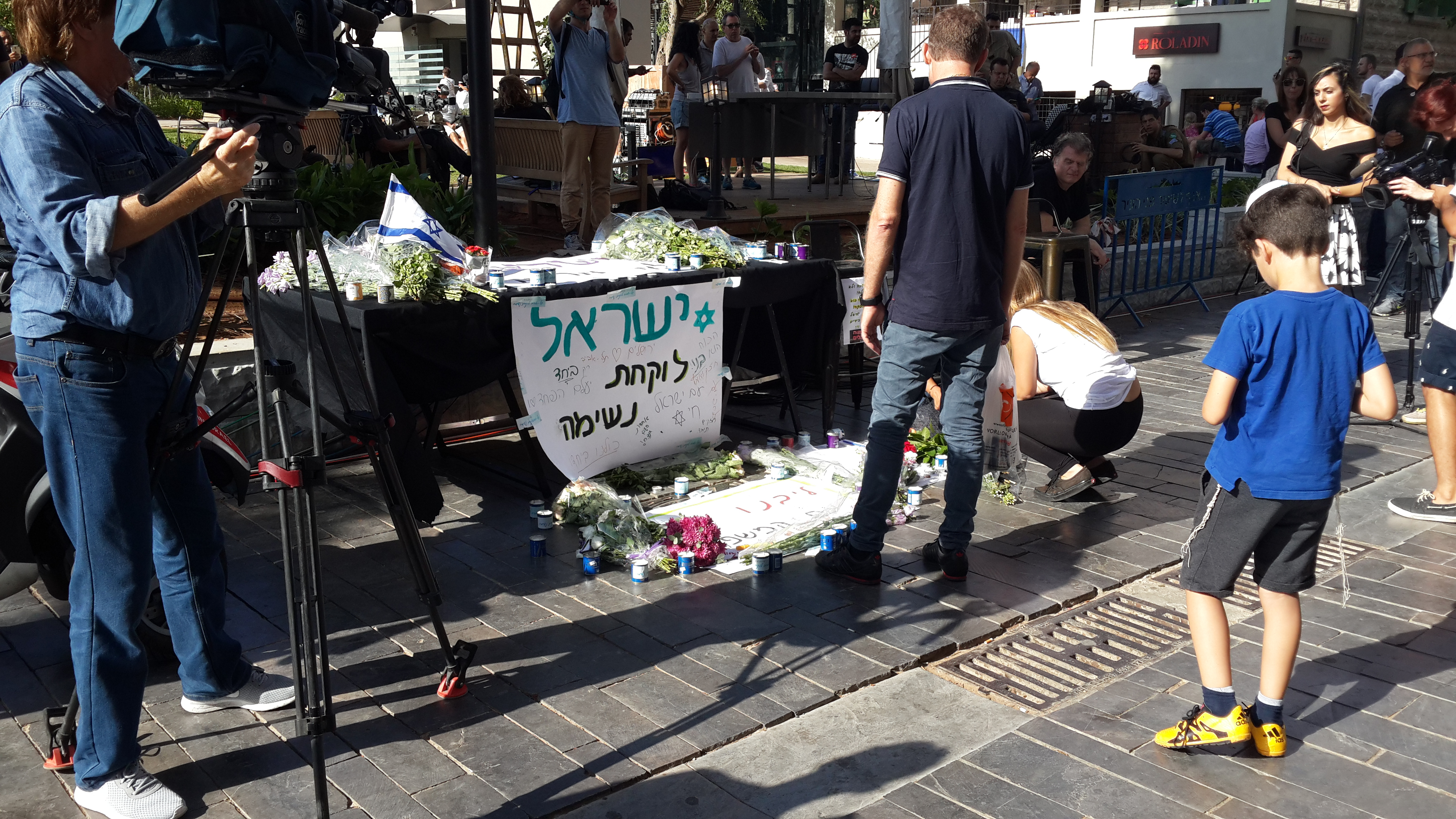 A makeshift monument for the June 2016 Tel Aviv shooting